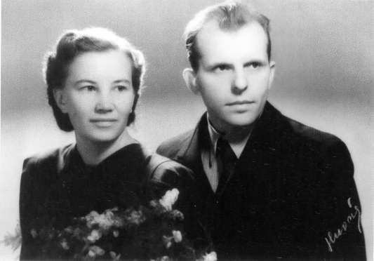 Wedding photograph of the Finnish painter Veikko Vionoja (1909–2001) and Kerttu née Ristimäki.